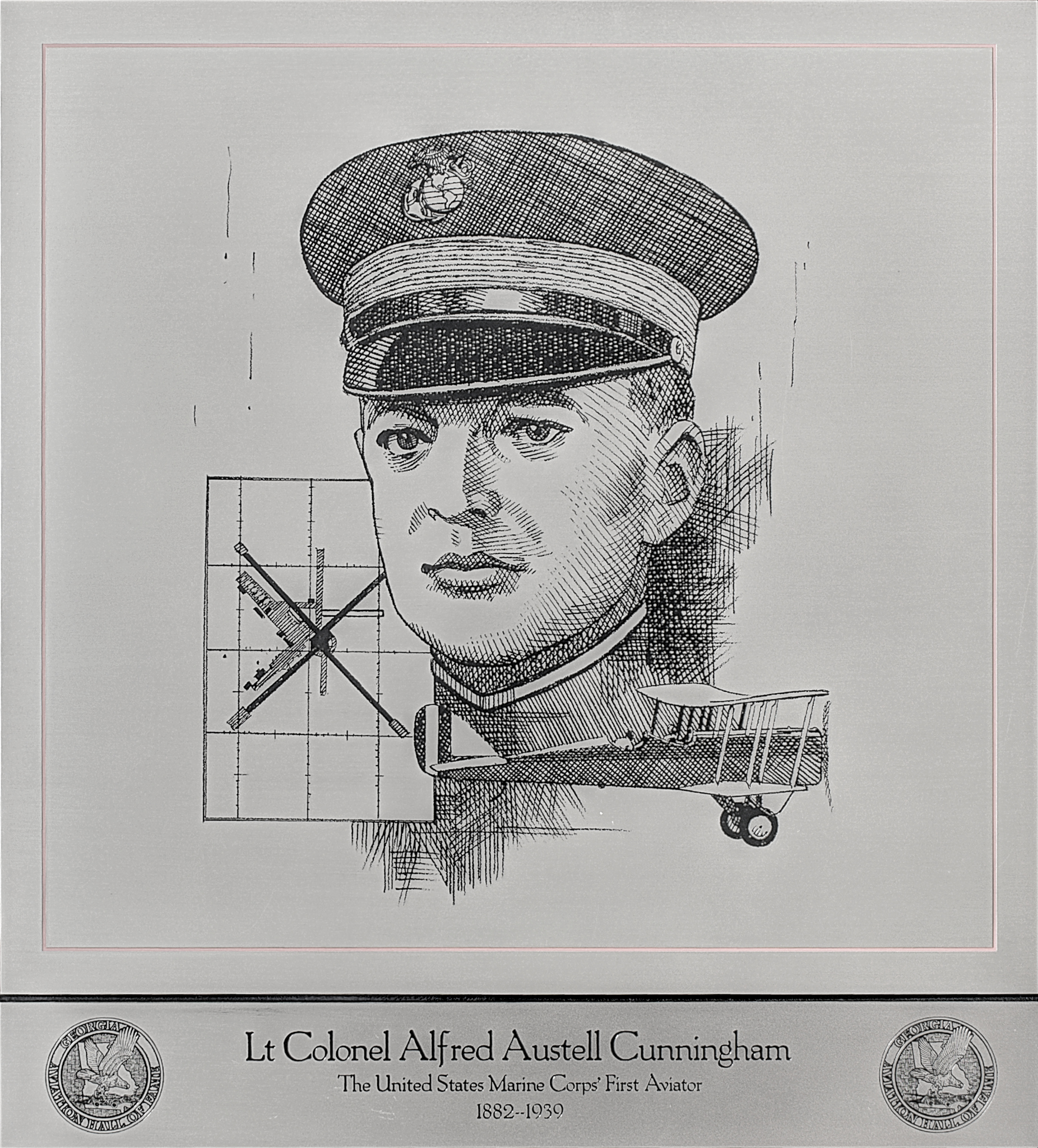 Lt. Colonel Alfred Austell Cunningham (1882 - 1939)